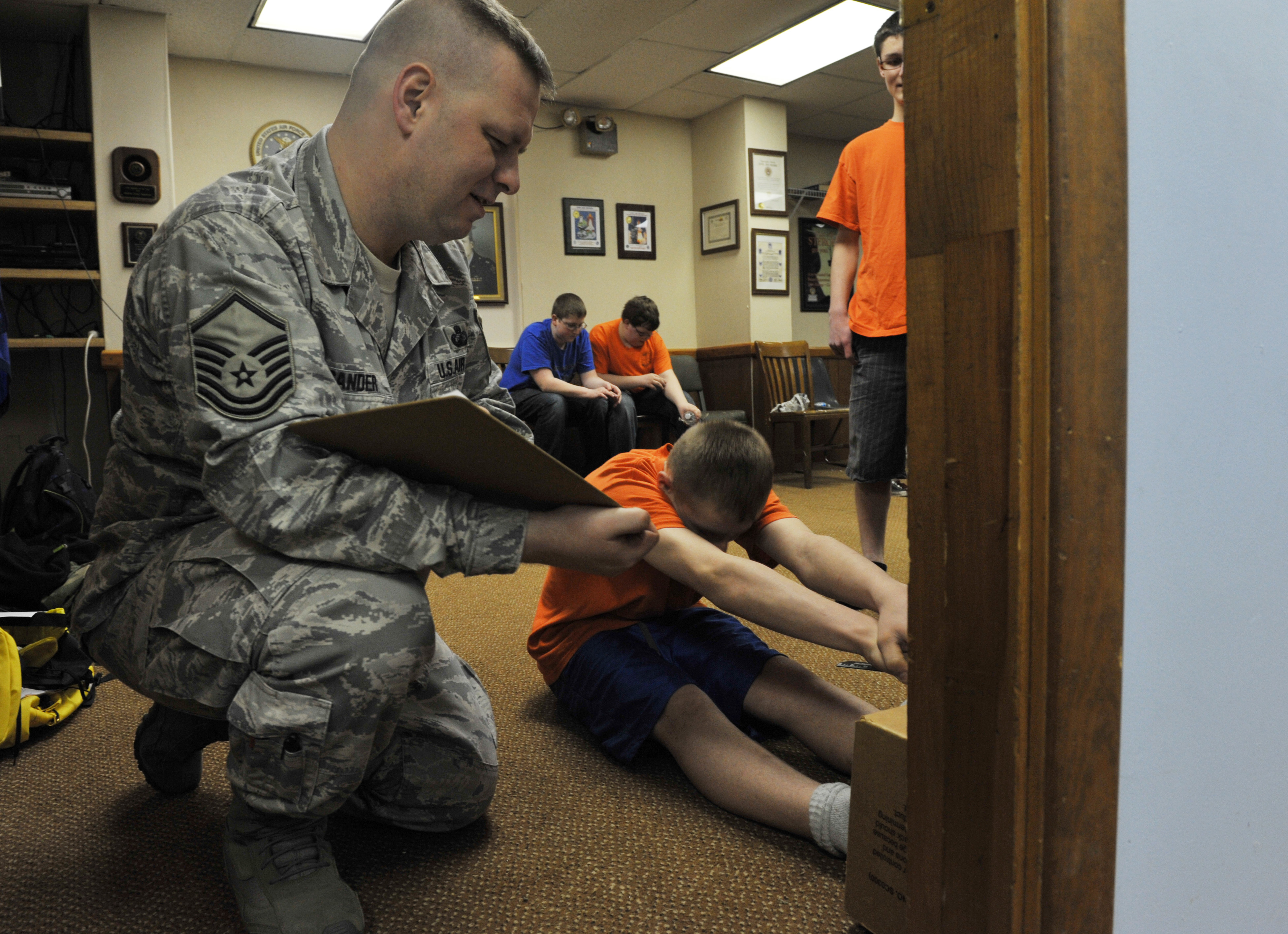 Master Sgt. William Sander, 509th Comptroller Squadron financial services superintendent, measures Camren’s, 15, a Civil Air Patrol cadet, sit-and-reach physical assessment, March 28, 2013, in Sedalia, Mo. The cadet physical fitness training is aligned with the President’s Challenge, a fitness program sponsored by the President’s Council on Physical Fitness and Sports. (U.S. Air Force photo by Heidi Hunt/Released)